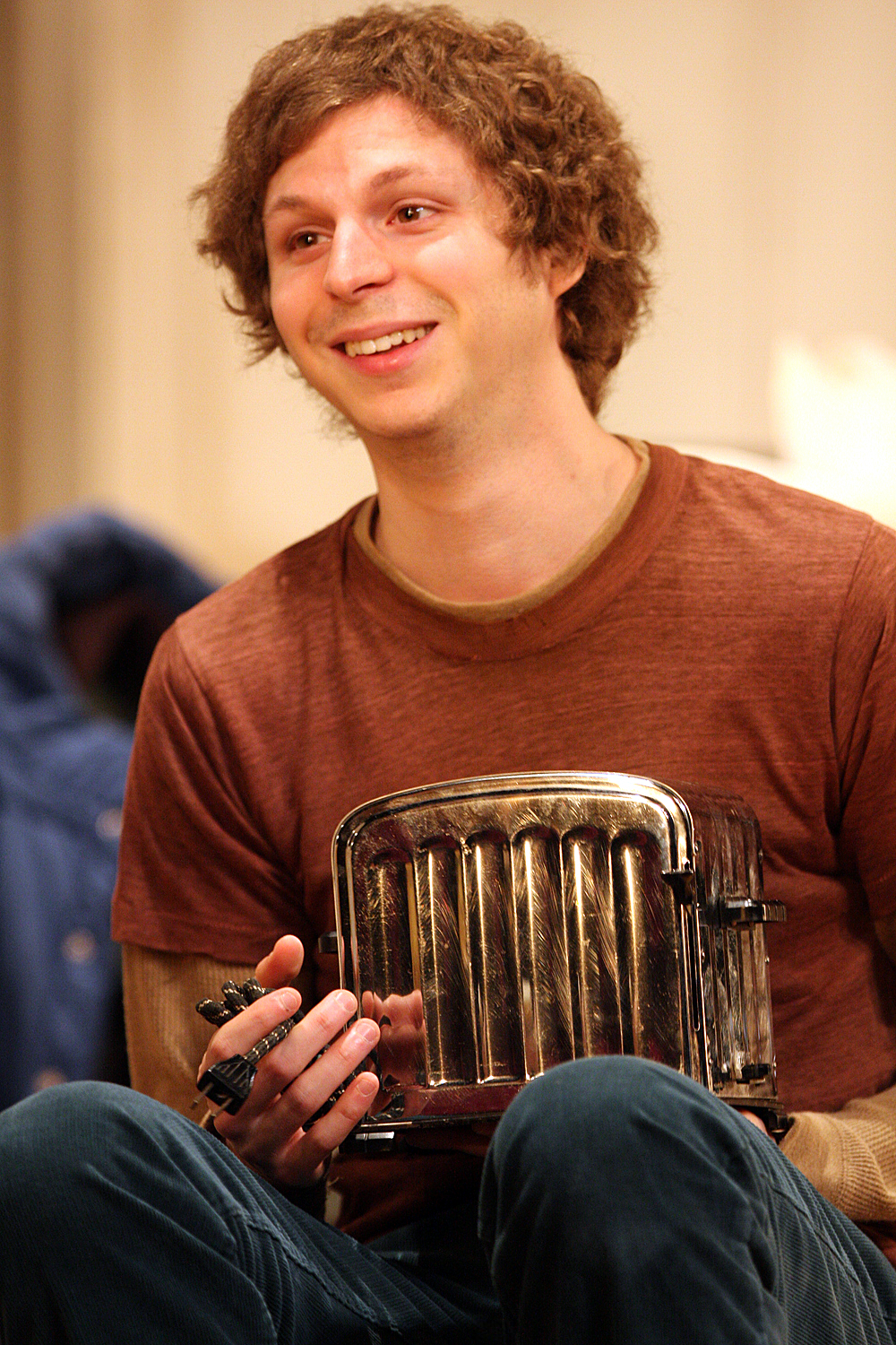 Michael Cera: This Is Our Youth Tour, Play Comes To Sydney Opera House 2012.